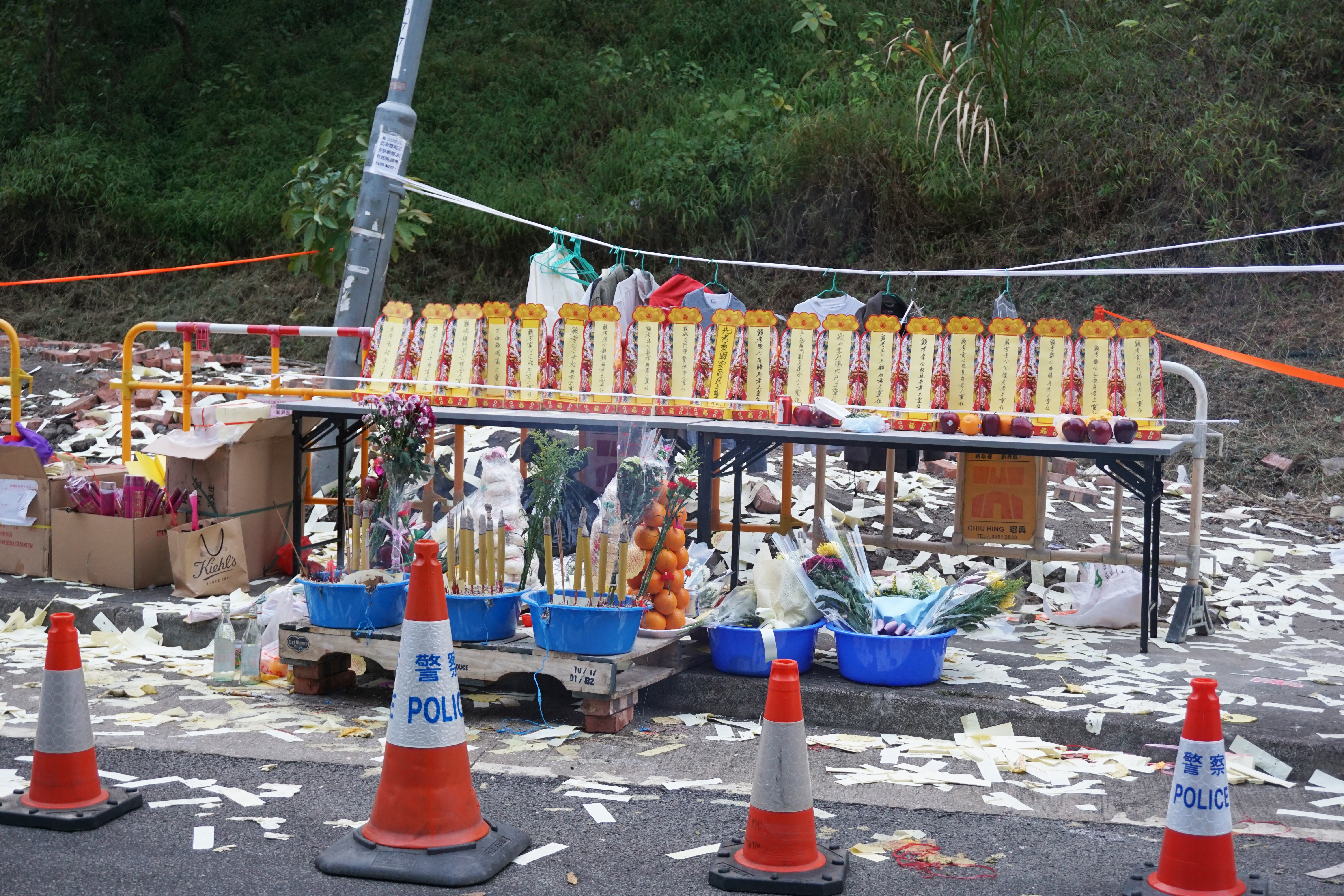 Double-decker Bus Tilted Incident in Tai Po Road, Hong Kong.